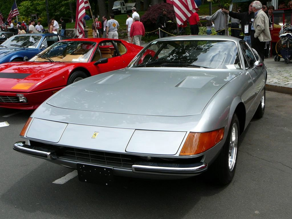 Compare Ferrari frontal treatment with Rover.